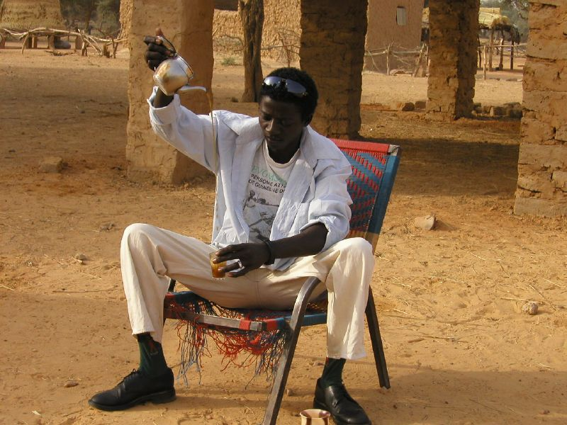 This assistant to the Majeur (local medical practitioner) made us tea. It's always a good thing to take part in drinking tea, or so I've heard. (Location: Inatés, Niger)